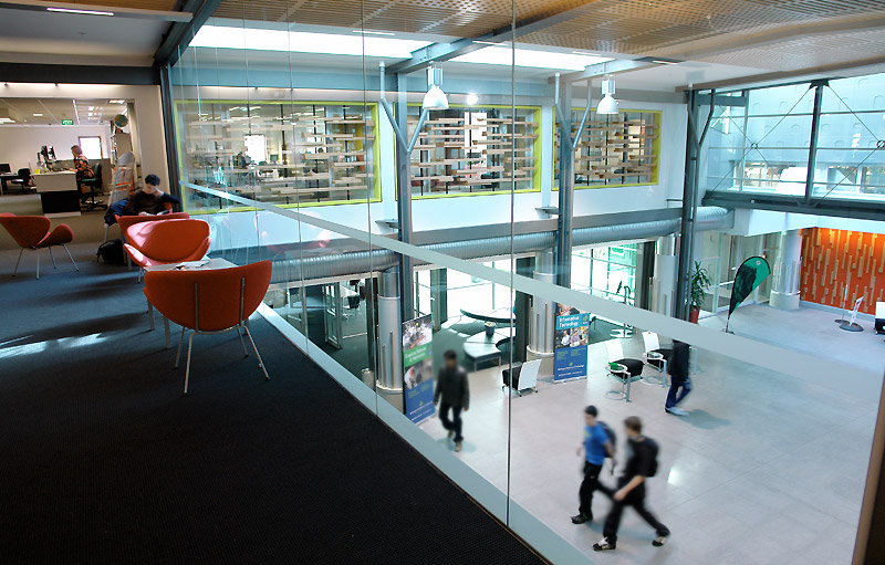 Wellington Institute of Technology Student Hub viewed from the Learning Commons, Petone Campus, Petone, Wellington, New Zealand